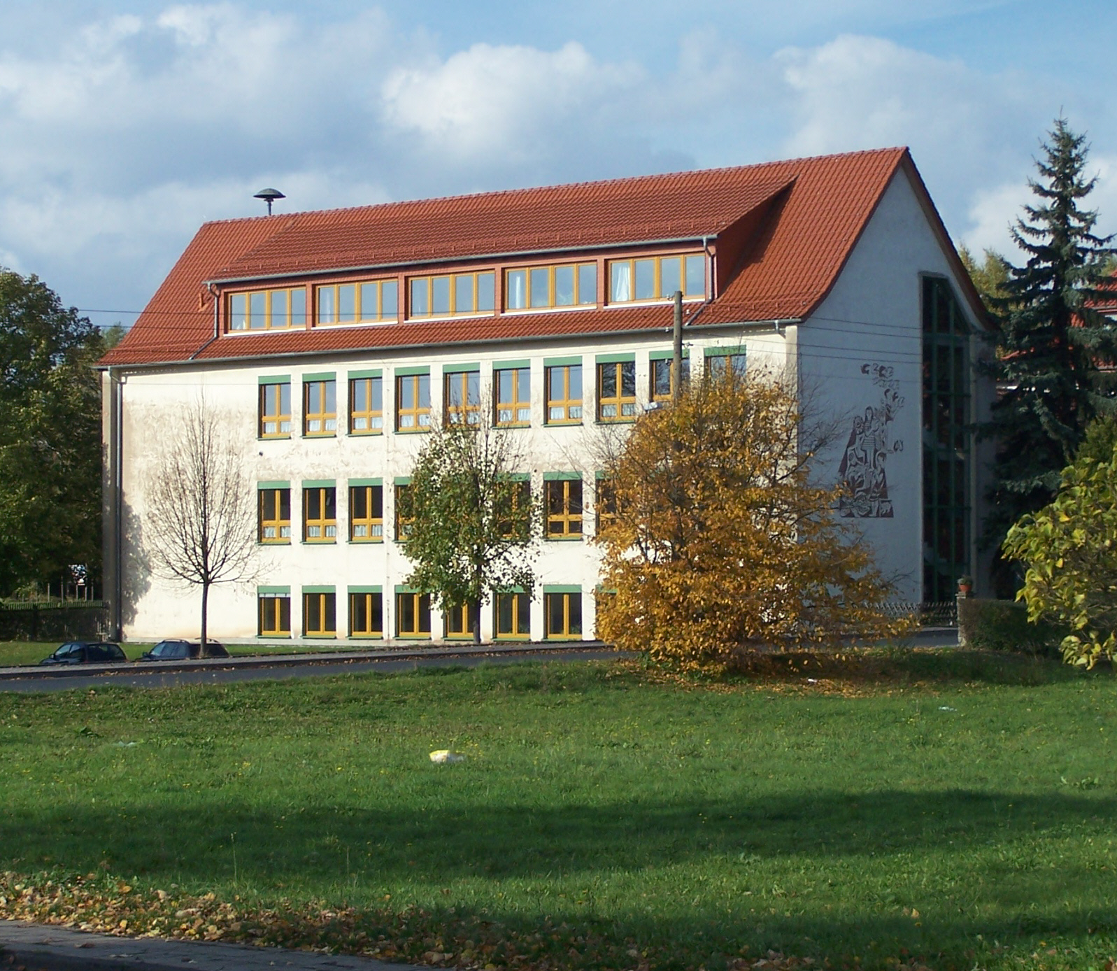 The school in Marksuhl.